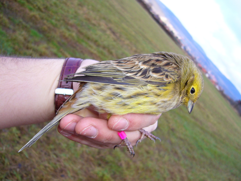 A Yellowhammer (Emberiza citrinella) caught during bird banding with a pink color band on its right leg for easy identification in the field.